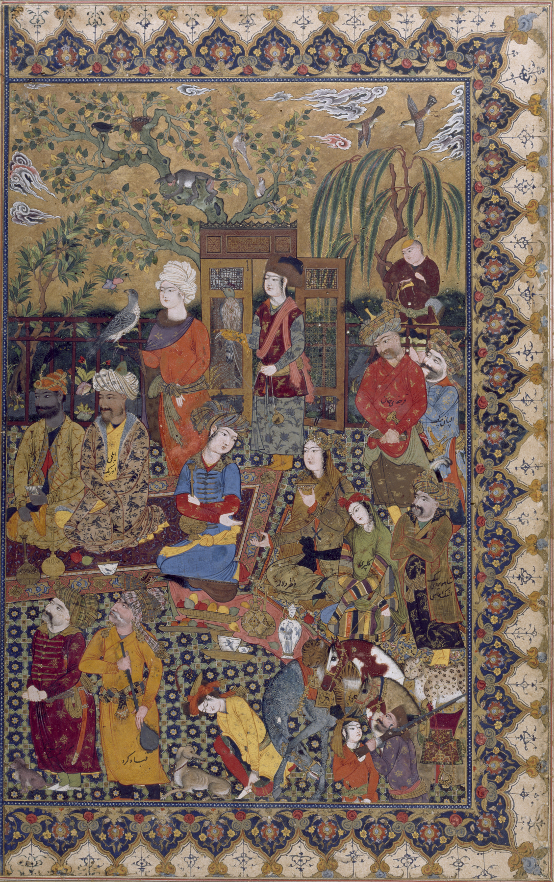 This painting, Walters manuscript leaf W.691, depicts courtiers of the Safavid ruler Shah 'Abbas I (reigned 996 AH/AD 1588-1038 AH/AD 1629). It is the right side of a double-page composition, which most likely served as a frontispiece to a manuscript. Certain courtiers of Shah 'Abbas I are identified by name. In the far upper right two men stand wearing turbans with vertical extensions held at the center, who are identified as Alpan Bik (Beg) (in a blue robe) and Qarajaghay Khan (in a red robe). Their headdress is distinctive of high-ranking members of court during the early 11th century AH/AD 17th. Qarajaghay Khan, an Armenian of the royal household, held a number of political positions at court and was an important patron of the arts. Standing lower down on the right side is Shah Vardi Bik Ishik Aqasi (literally master of the threshold, or master of ceremonies) (in a gold and black robe). An Uzbek envoy (ilchi-yi Uzbak) (in a beige and blue patterned robe) is seated on the carpet. Falconers, grooms, and a musician (Qubad-i Kurd) standing beside a man identified as Mirza 'Umar (?) Shaykh (in a red and gold robe) are also shown. There are 2 seated female figures, identified as Gulpari and Dukhtardallalah. The latter seems to denote a woman who procures slave girls for the palace. This single leaf has been associated with Reception at the court of Shah`Abbas I, also housed at the Walters Art Museum (W.771, fol. 50a). However, it is unlikely that the two ever formed a double-page composition.